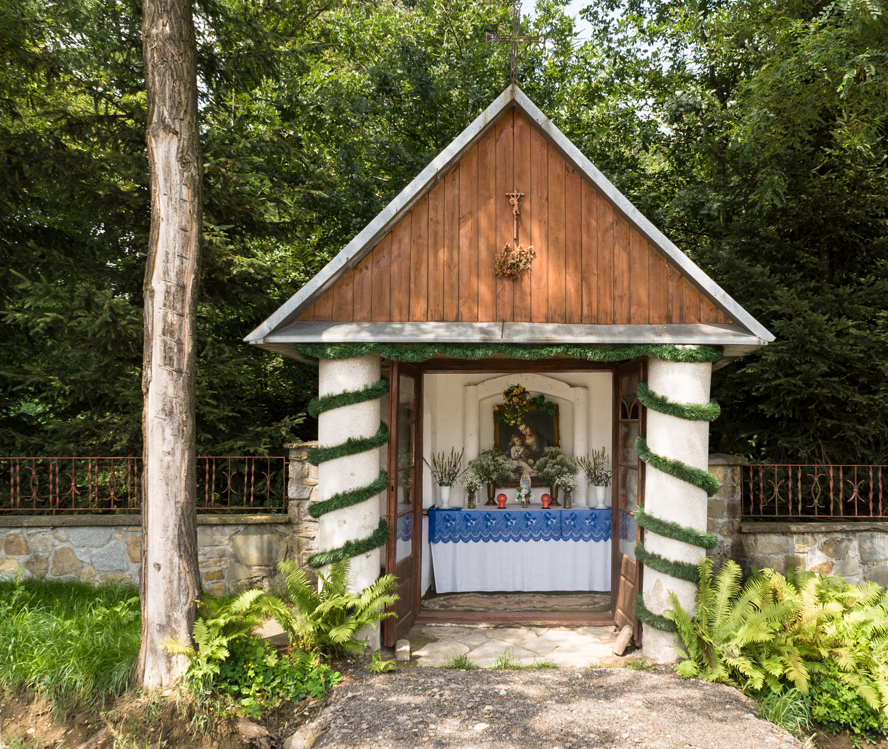 Wayside shrine with a painting of Madonna and Child in Bachórzec, Poland.